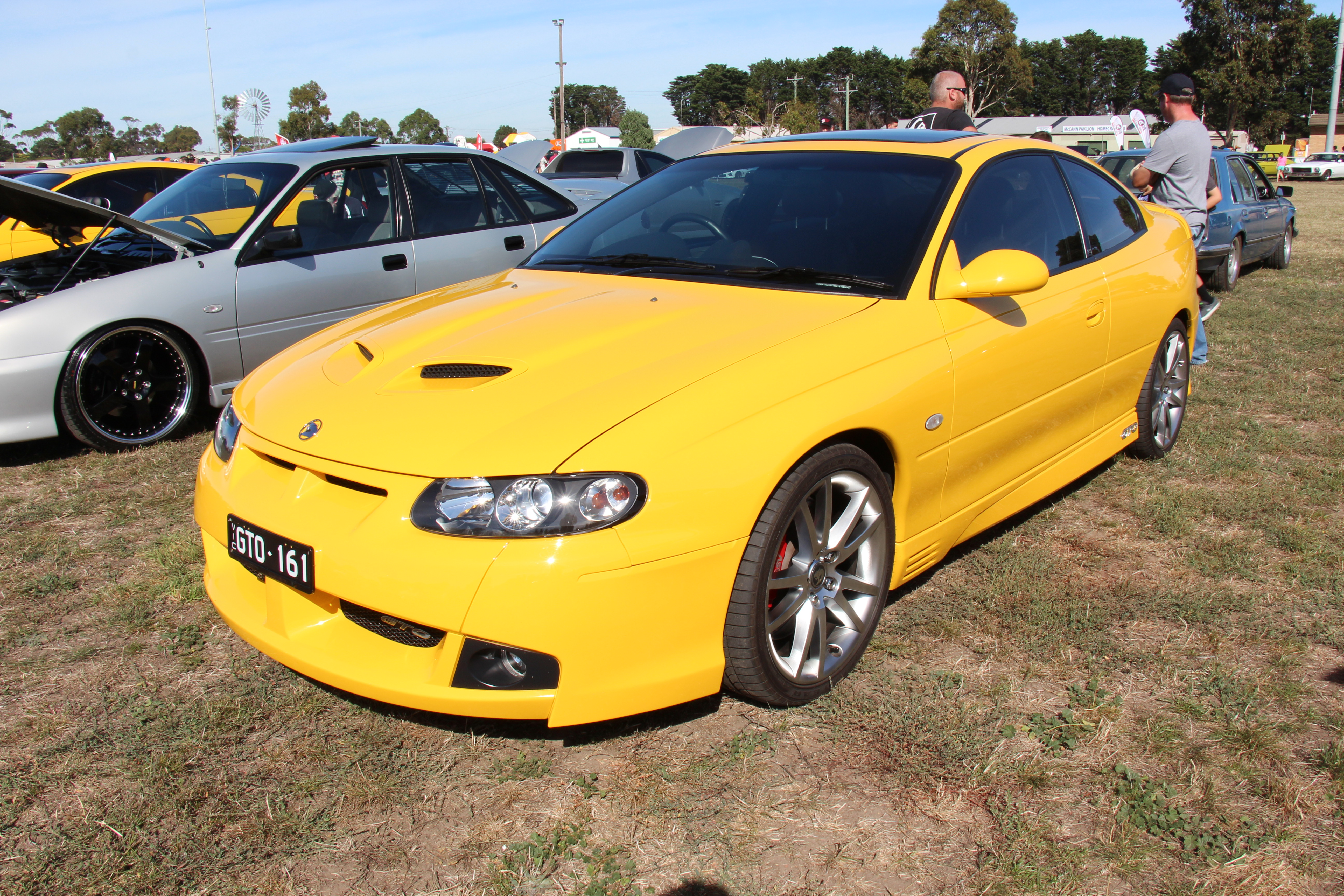 2005 HSV Coupé (Z Series) GTO coupe Vehicle registration enquiry results Jurisdiction Victoria Registration GTO161 Chassis code 6G1ZX14U35L410895 Engine code VF050040891 Compliance date 2005-03 Year of manufacture 2005